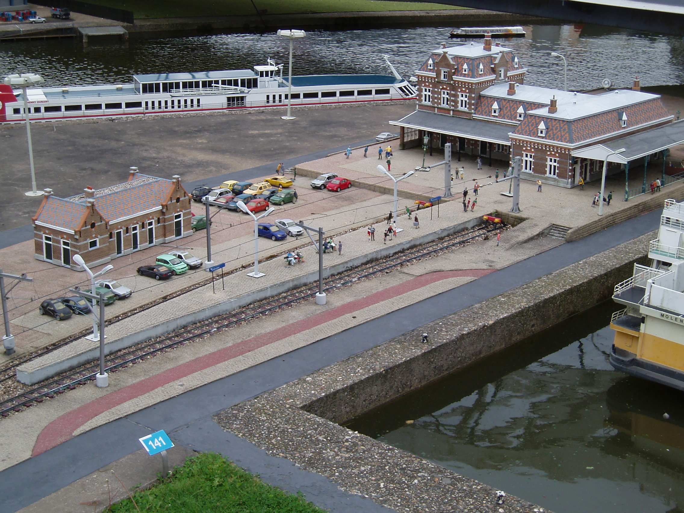 Madurodam in the Hague in the Netherlands